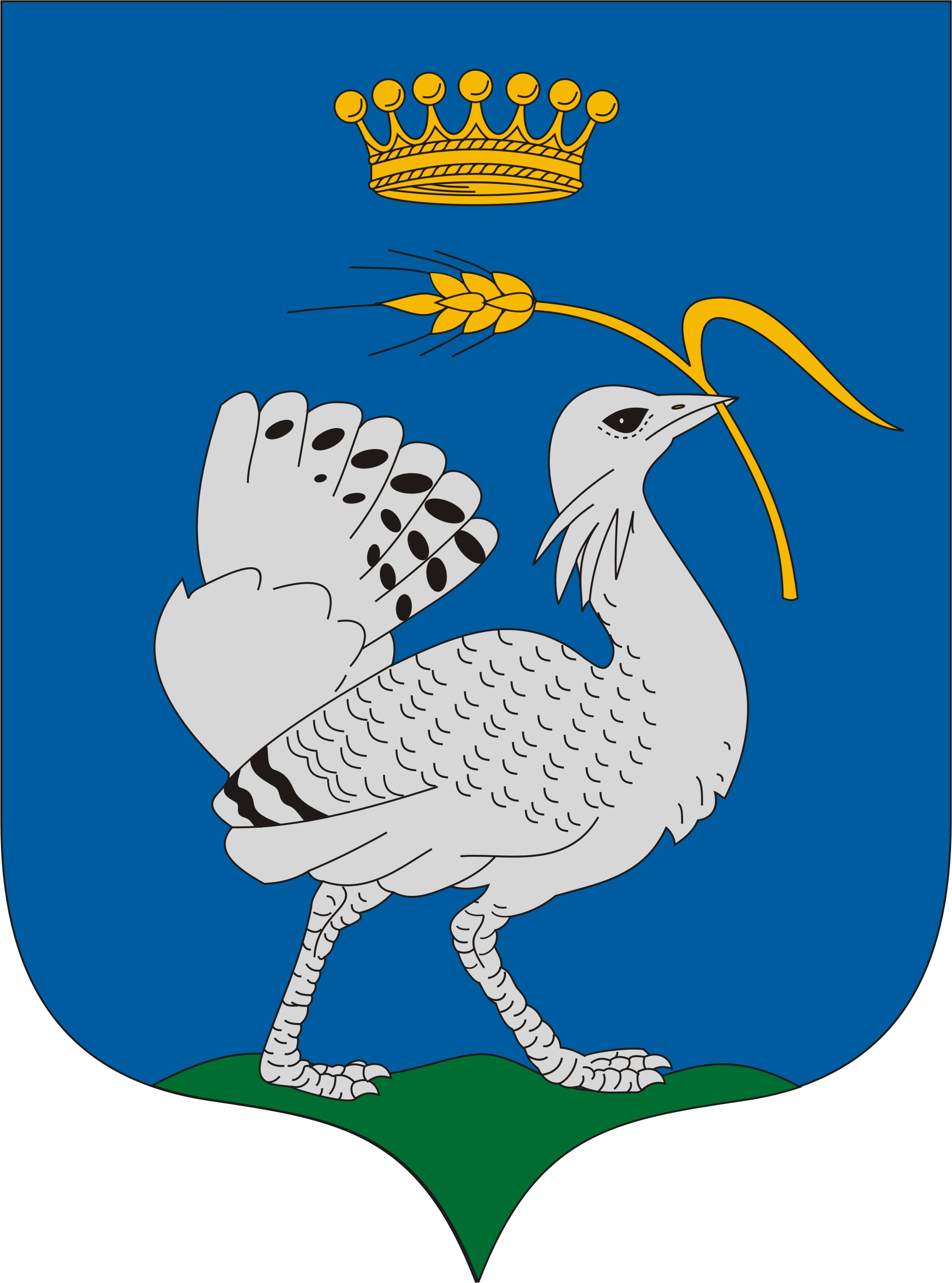 Coat of arms of Madaras, Hungary